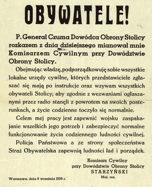 Poster of public proclamation of Stefan Starzyński as the Civilian Commissar of Warsaw during German-Soviet invasion of Poland 1939